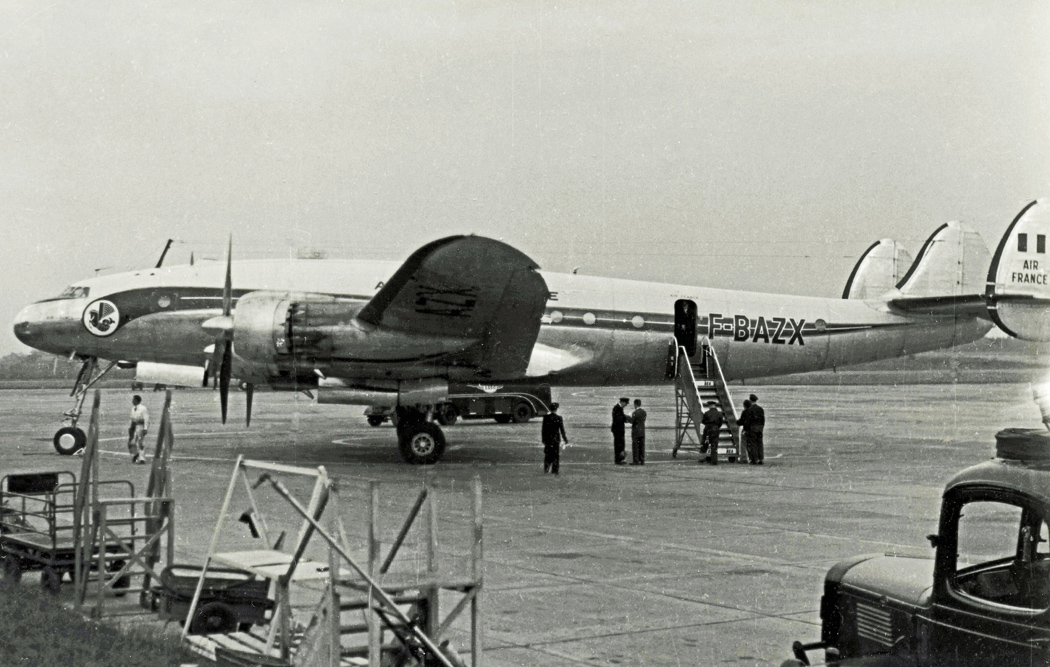 Lockheed L-749A Constellation F-BAZX of Air France at Manchester Airport in 1955